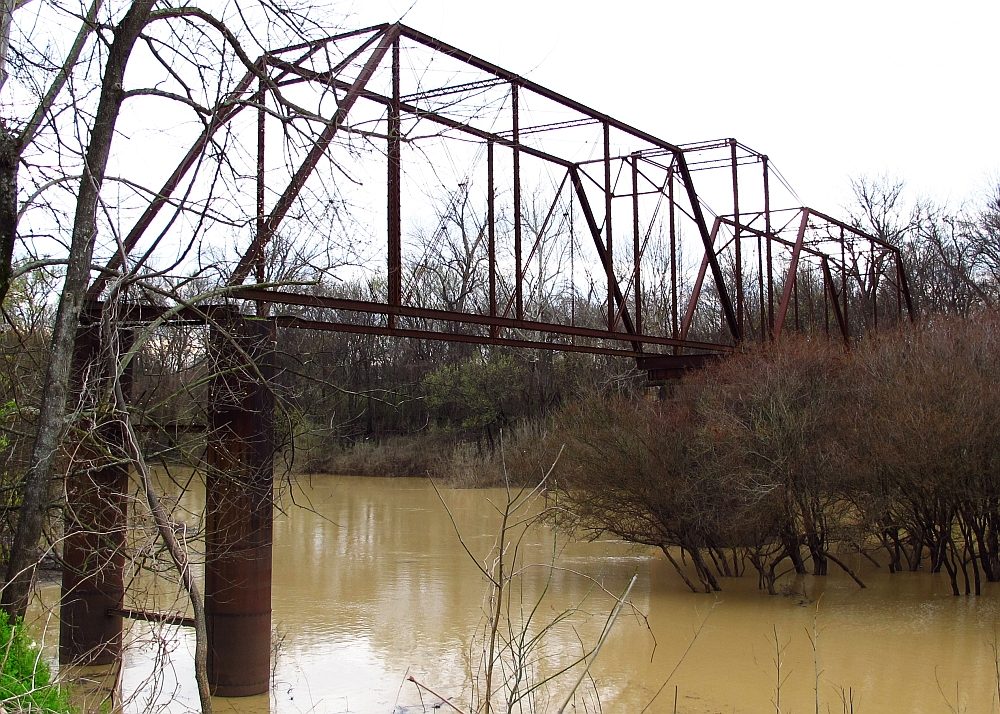 The Woodburn Bridge — crossing the Sunflower River west of Ruleville near Indianola, western Mississippi. The 1916 Pratt truss bridge is on the National Register of Historic Places in Sunflower County, Mississippi.